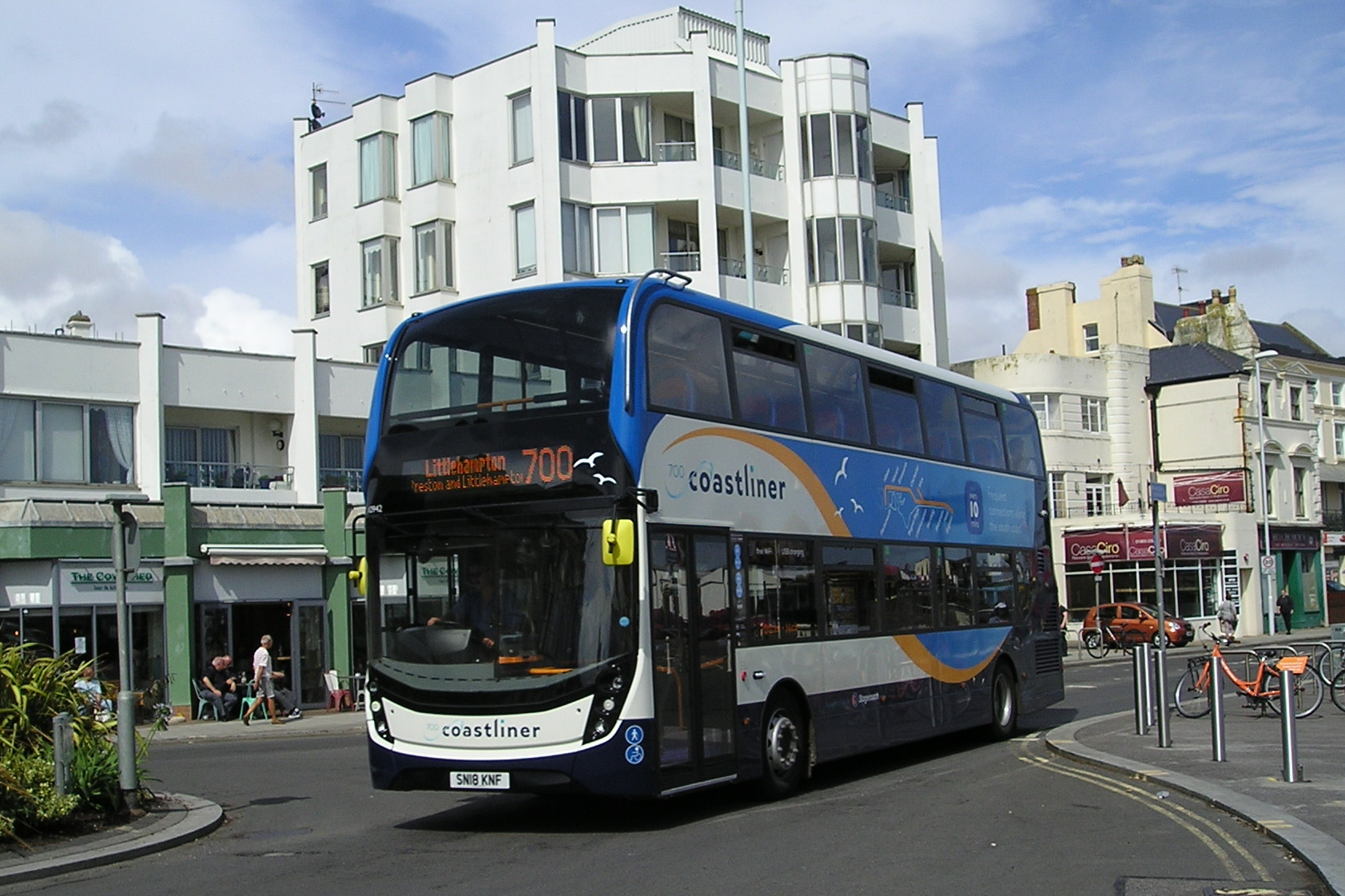 Alexander Dennis E40D MMC H45/32F, new in 2018. Photographed in Worthing, August 2018.